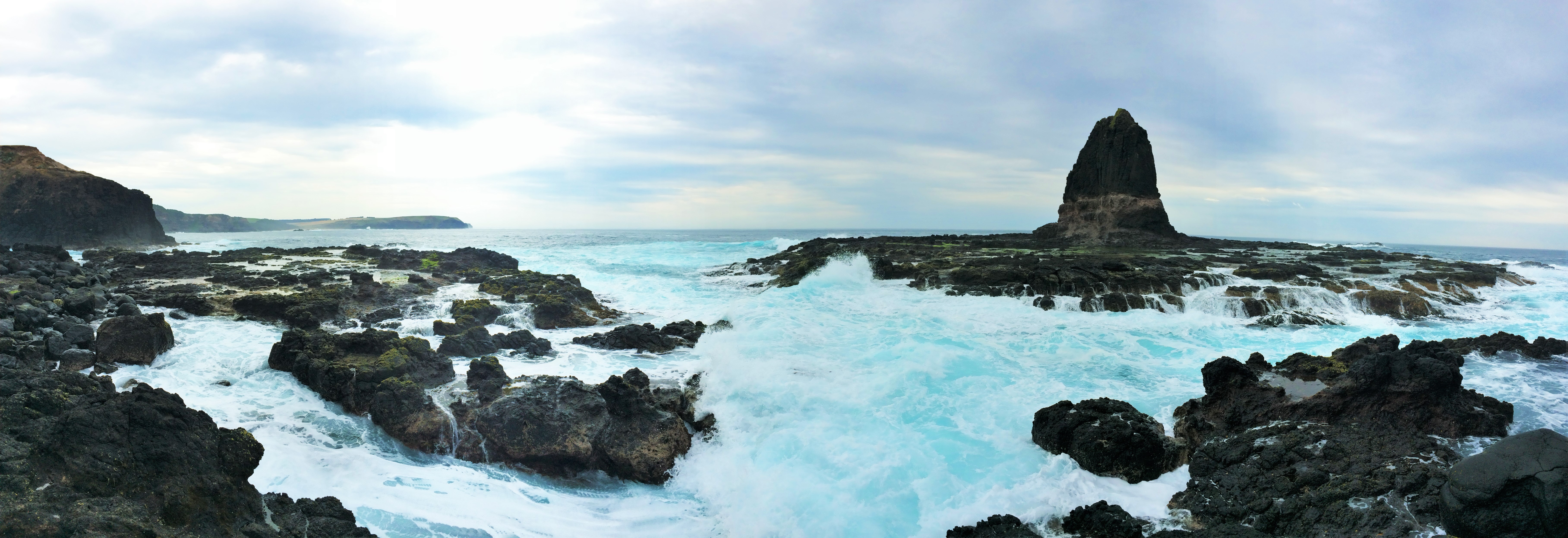 The ominous pulpit rock on overcast day. Taken 10th of October, 2015. ƒ/2.2, 1/1001s, ISO 50.